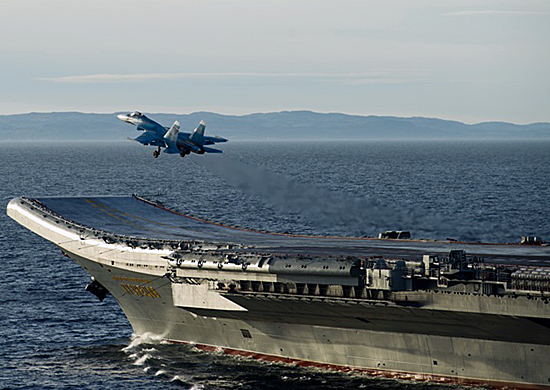 The 279th separate naval fighter regiment (Murmansk Region)